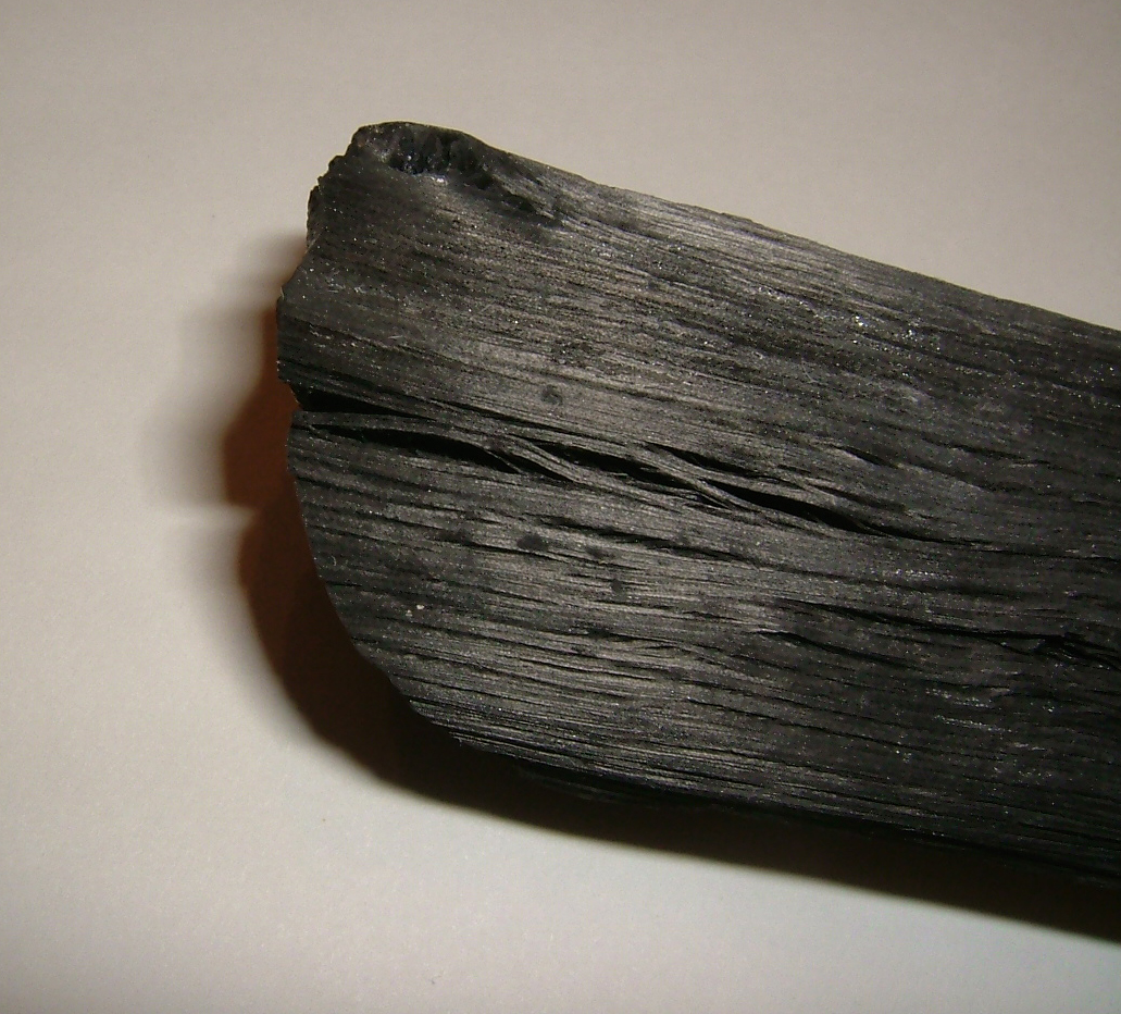 備長炭の一部 (a part of the Bincho-tan) 2006-07-09に投稿者 (Kkkdc) が撮影。 原産地: みなべ町